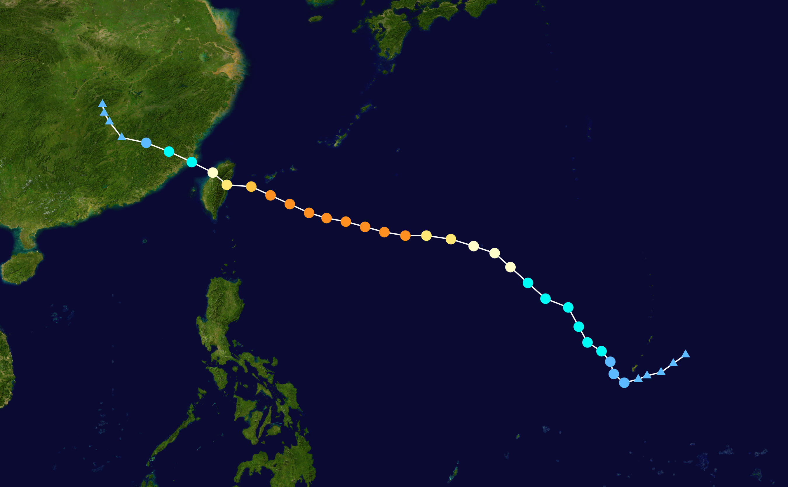 Typhoon Talim (2005) track. Uses the color scheme from the Saffir-Simpson Hurricane Scale.